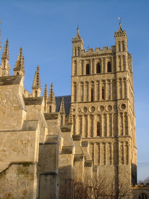 South tower, Exeter Cathedral 252429 (12th century), together with crocketed buttresses (14th century) against the south wall of the nave, seen from the cathedral green.